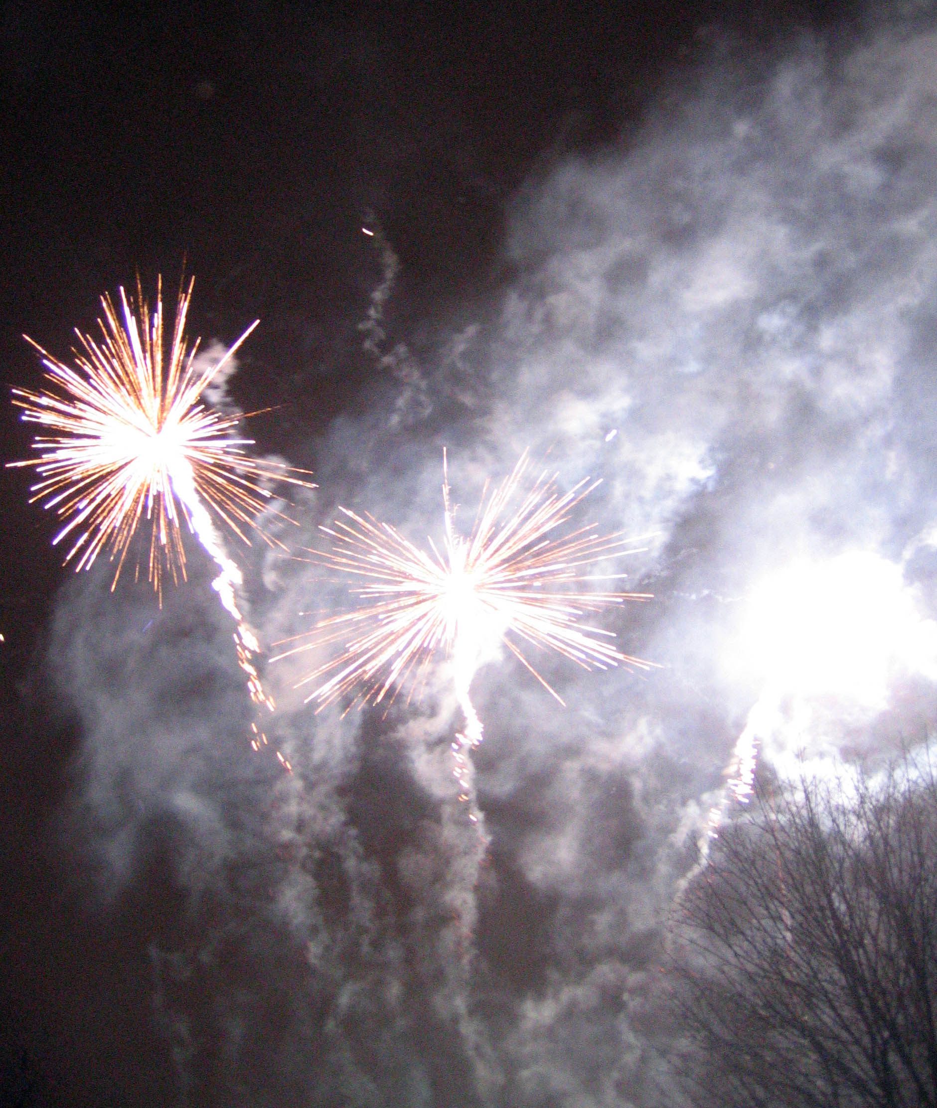 New year fireworks in Oslo, Norway.